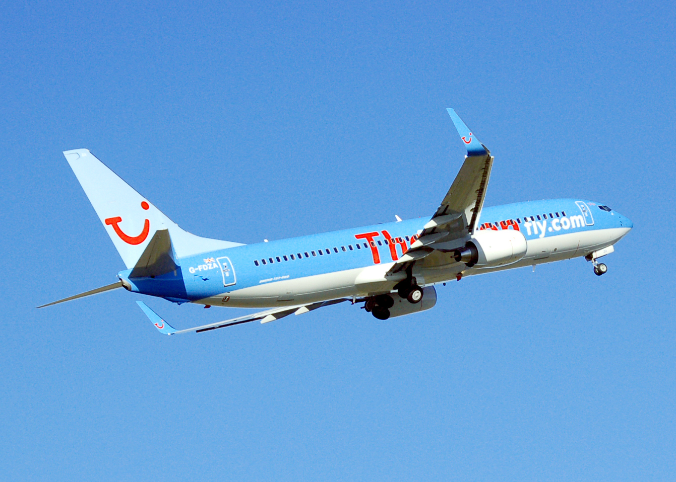 Thomsonfly Boeing 737-800 (G-FDZA) takes off from London Luton Airport, England.